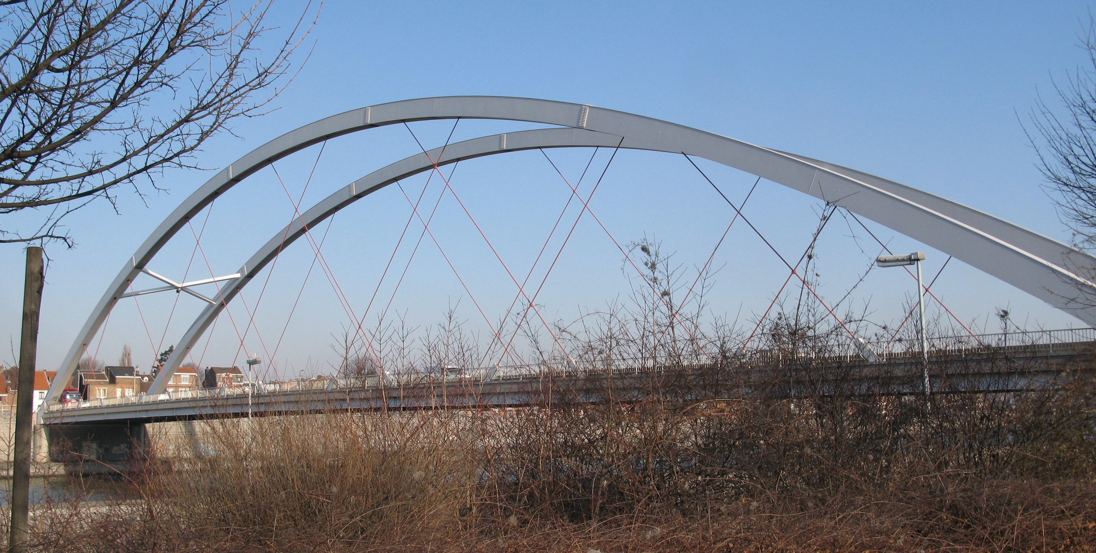 Milsaucy-Bridge in March 2010 seen from the right bank of the Canal Albert